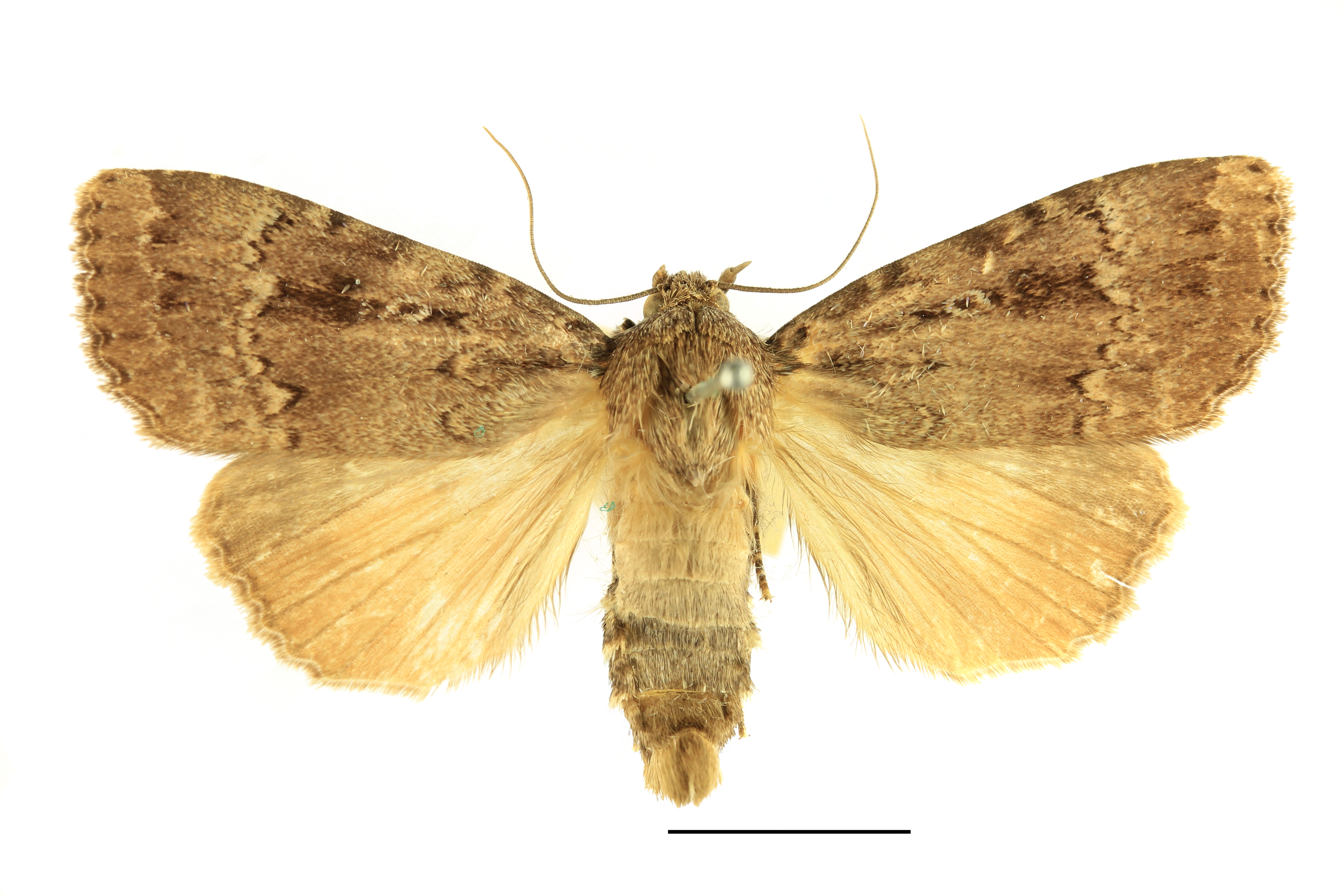 Amphipyra pyramidea